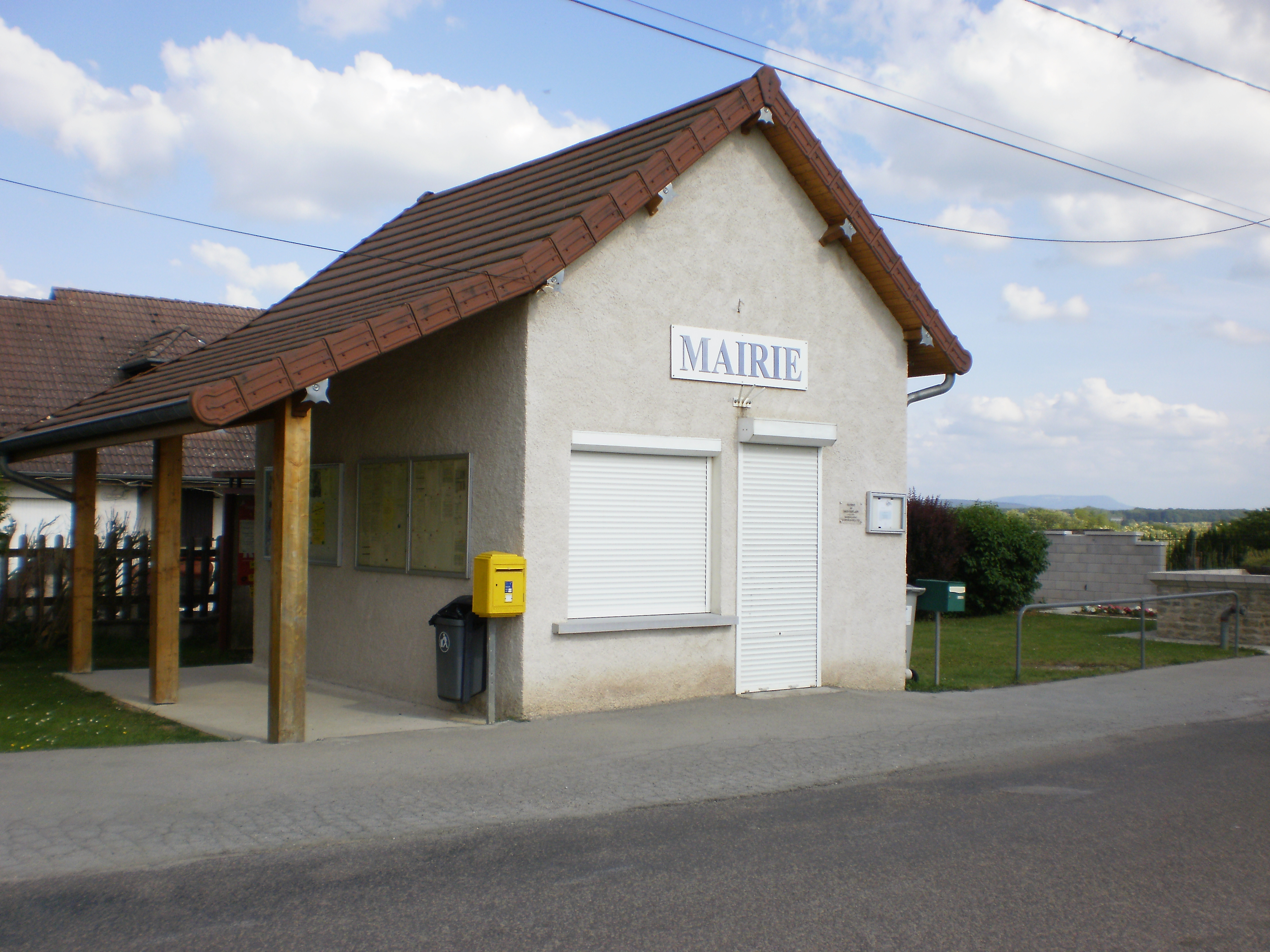 Monteplain city hall